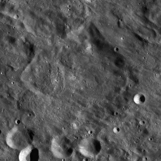 Houzeau crater, on the far side of the moon. Mosaic of LRO WAC images.